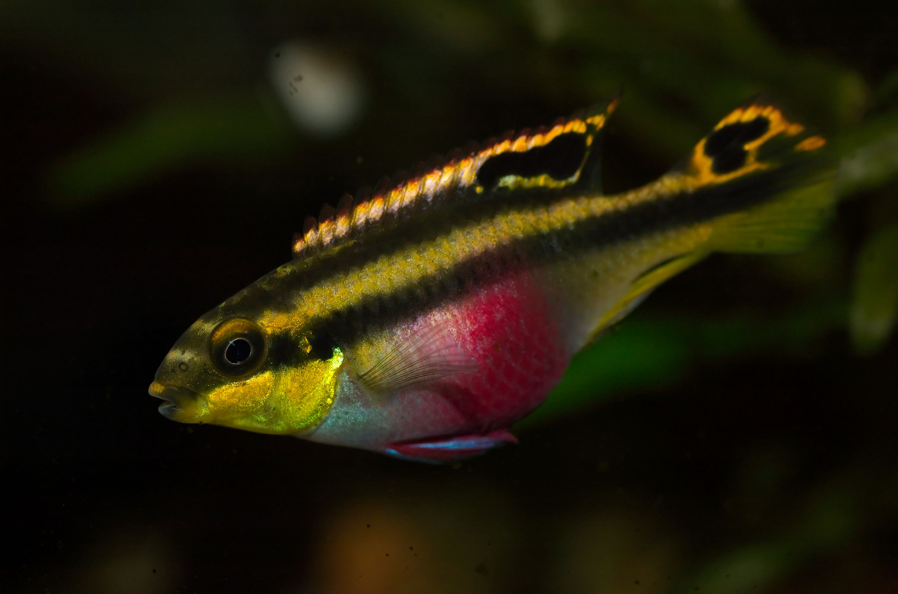 Kribensis, female